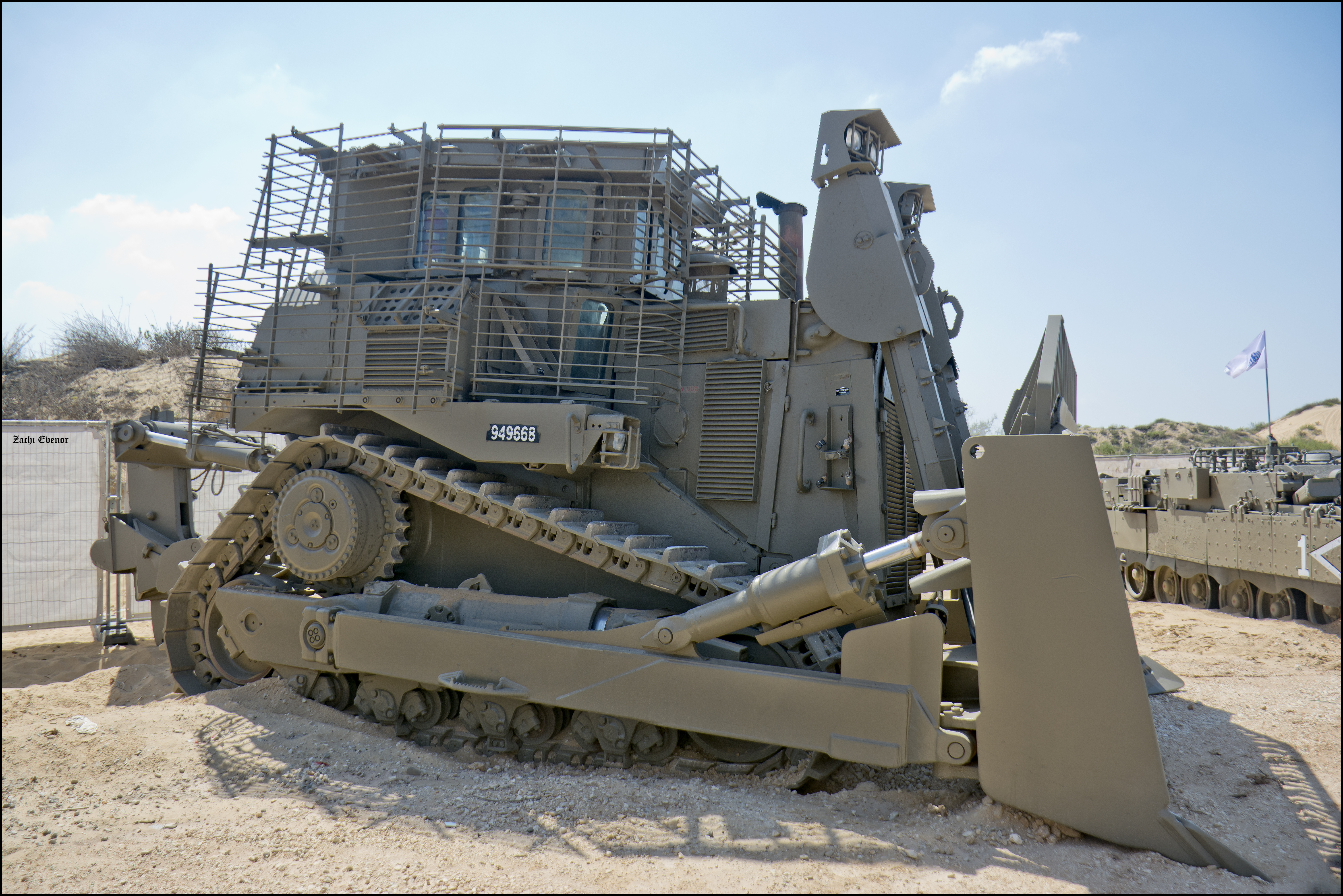 IDF Caterpillar D9R armored bulldozer, Our IDF 70, Israel